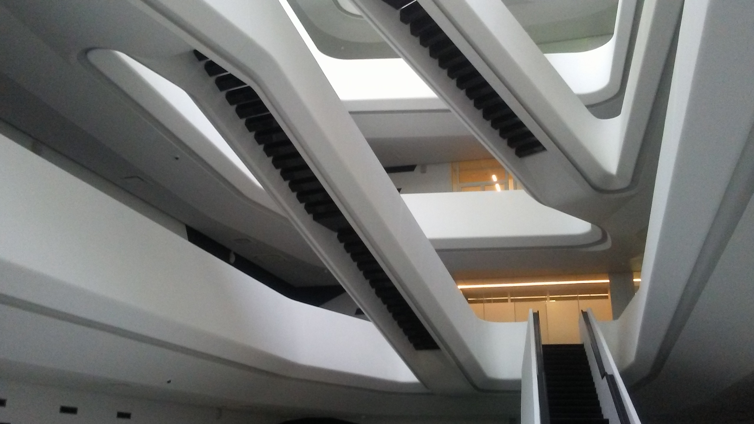 The Dominion Tower is a business-centre located in the south-east part of Moscow in Dubrovka district, built after the project of the British architrect with Iraqi origins Zaha Hadid.